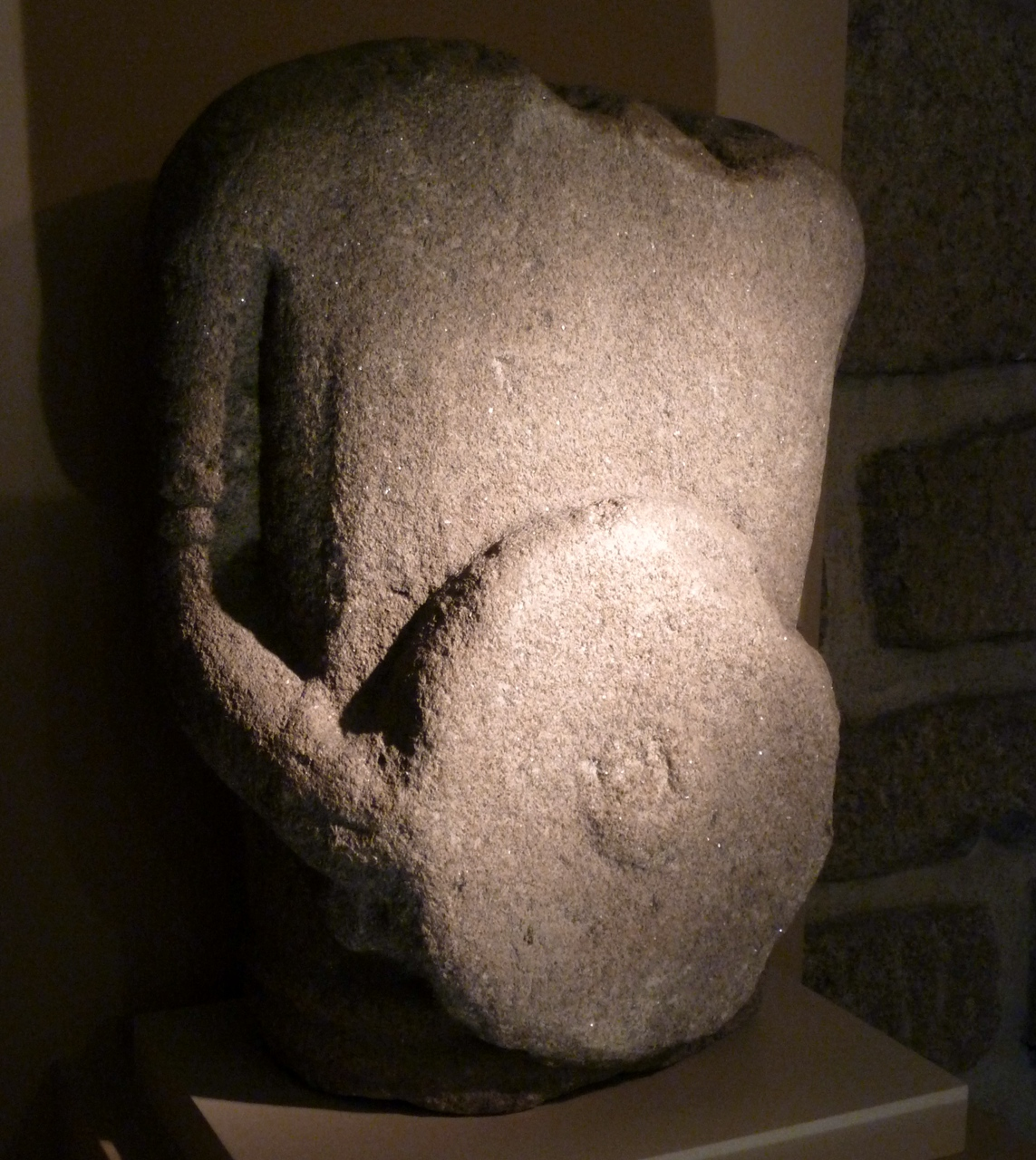 A fragment of a Galician warrior statue. Museo provincial de Ourense.